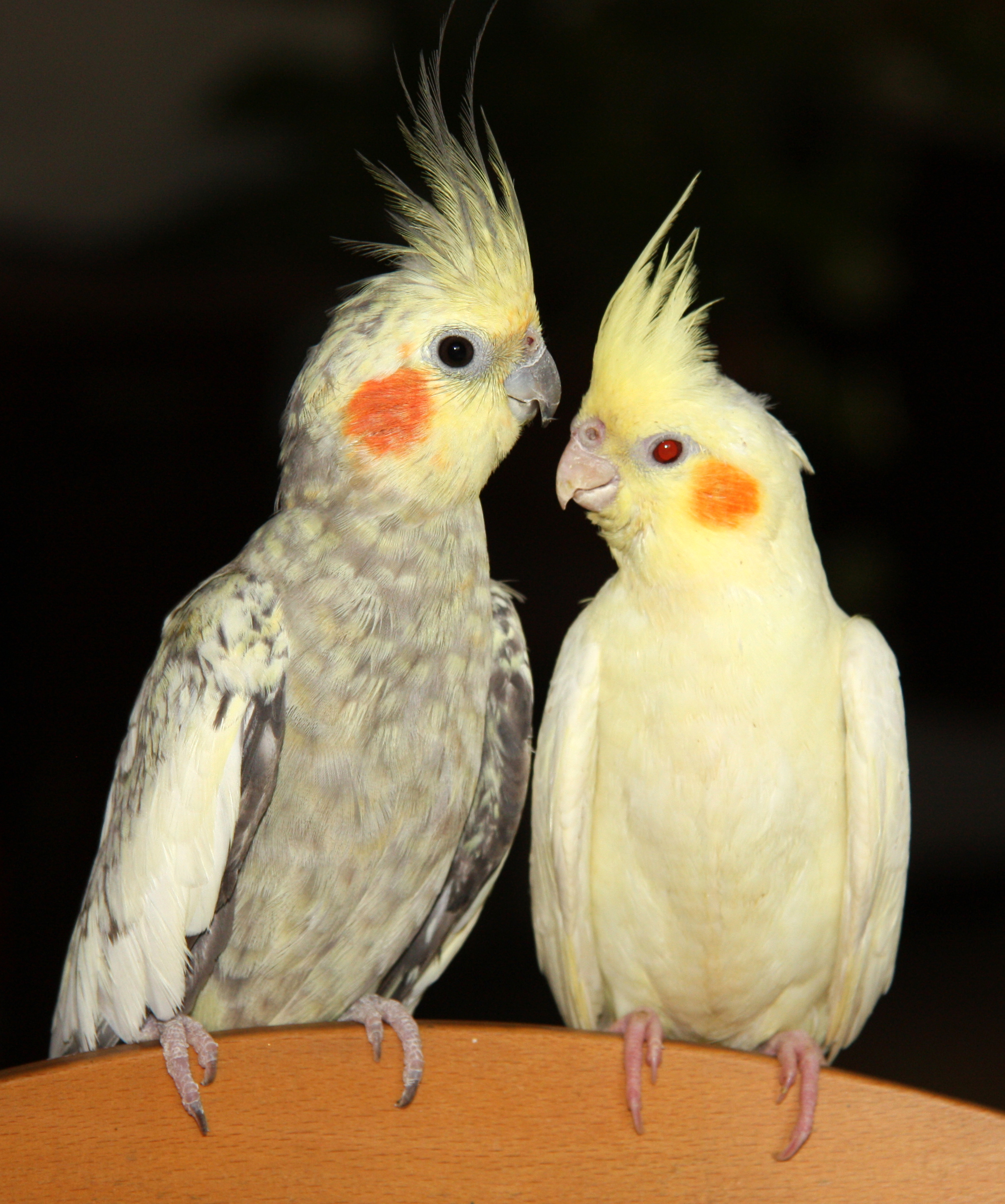 Cockatiels